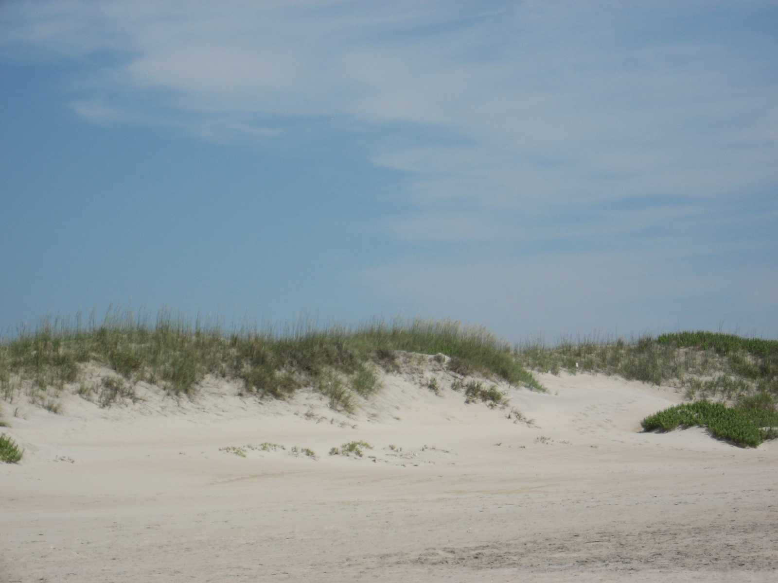 Beach